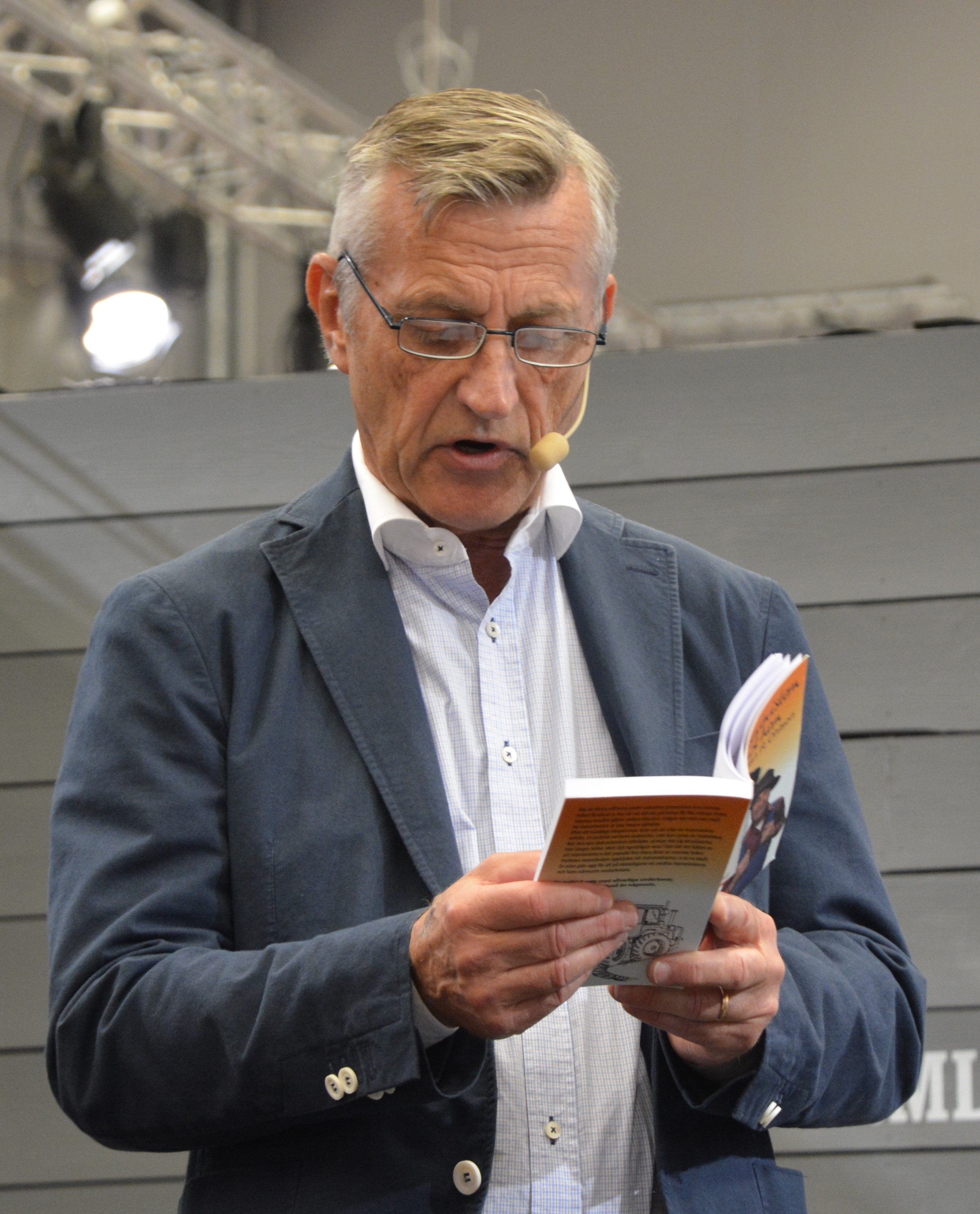 Jan R, Ohlson, upplästning i Värmlandsmontern på Bokmässan i Göteborg 2016